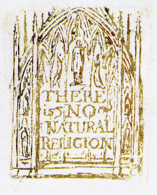 1794 version of Plate 2 from Series b of There is No Natural Religion